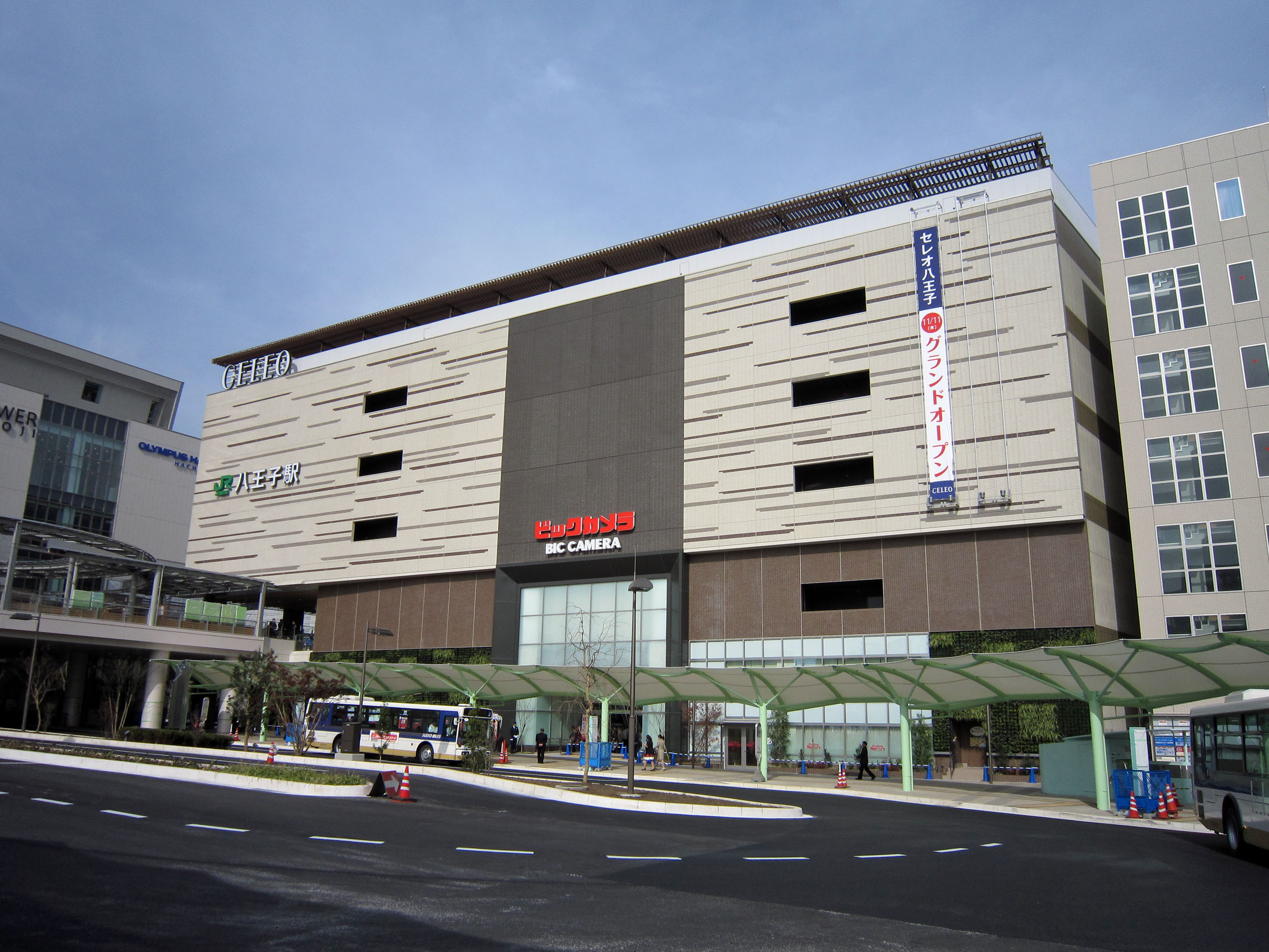 CELEO Hachioji (Hachioji Station South Building), Hachioji, Tokyo, Japan